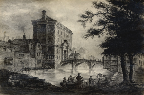 Gaol at Southgate Bridge c.1700